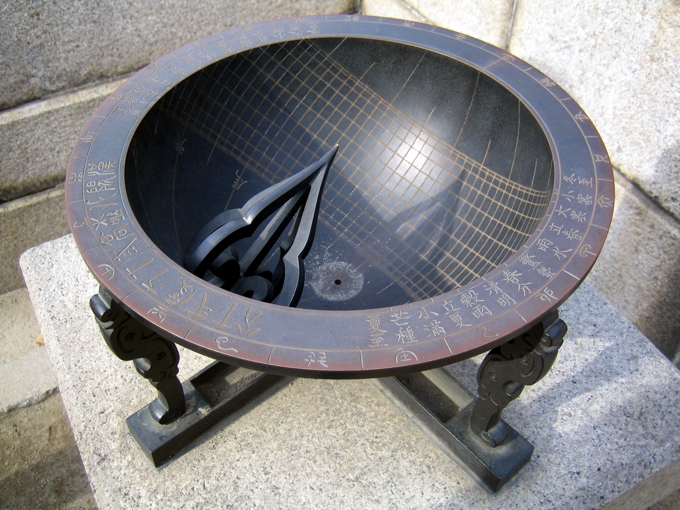 Sundial made in the era of Joseon Dynasty and displayed in Gyeongbokgung, Seoul, South Korea